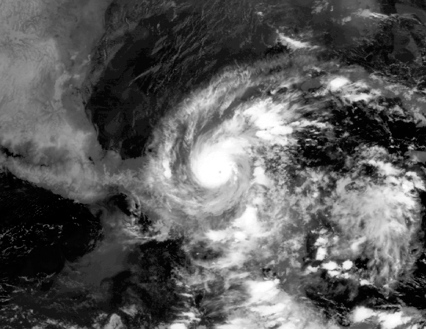 Hurricane Richard at its peak strength on October 25, 2010.